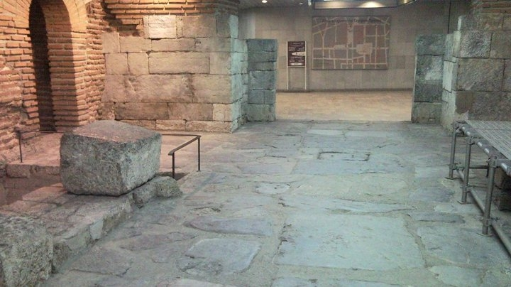 Decumanus Maximus in ancient Serdica